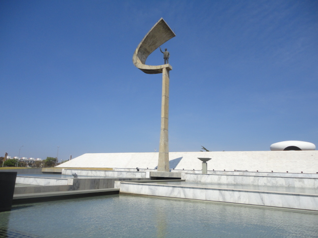 Brasilia